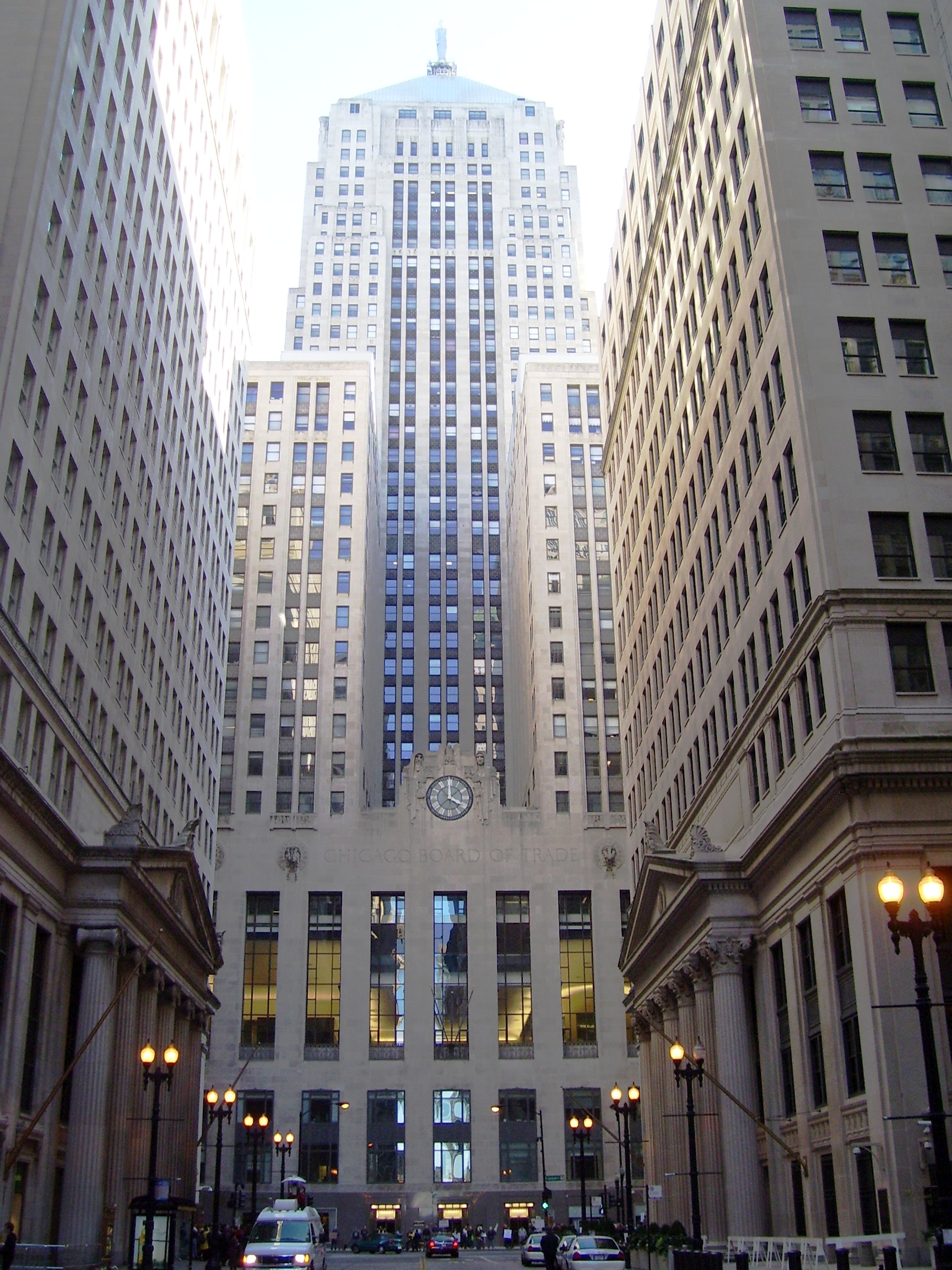 Looking south down South Lasalle Street in the Financial District of Chicago, Illinois at the Chicago Board of Trade Building, in the center, the Continental Illinois Bank Building on the left, and the Federal Reserve Bank Bulding on the right.